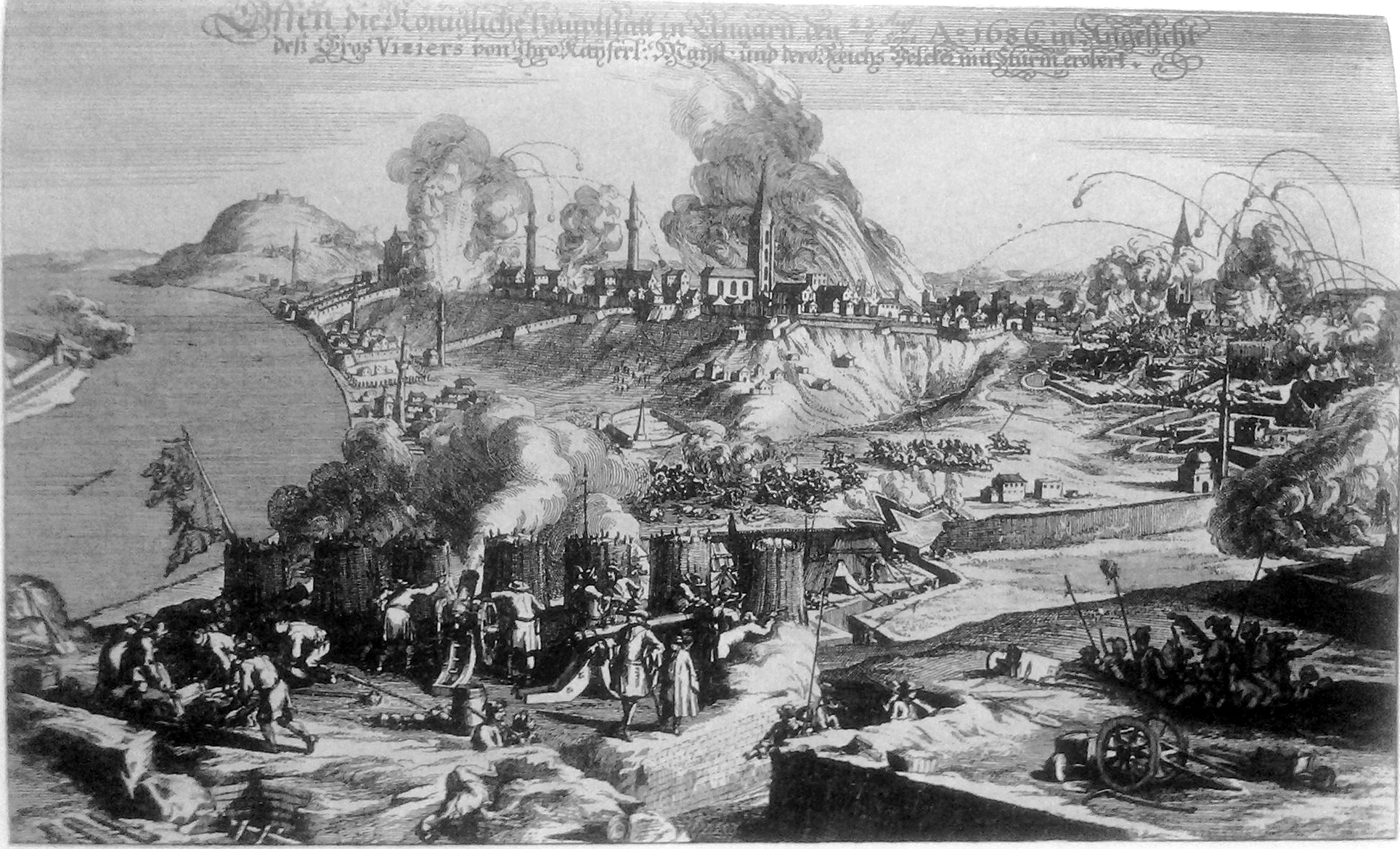 Siege of Buda, 1686